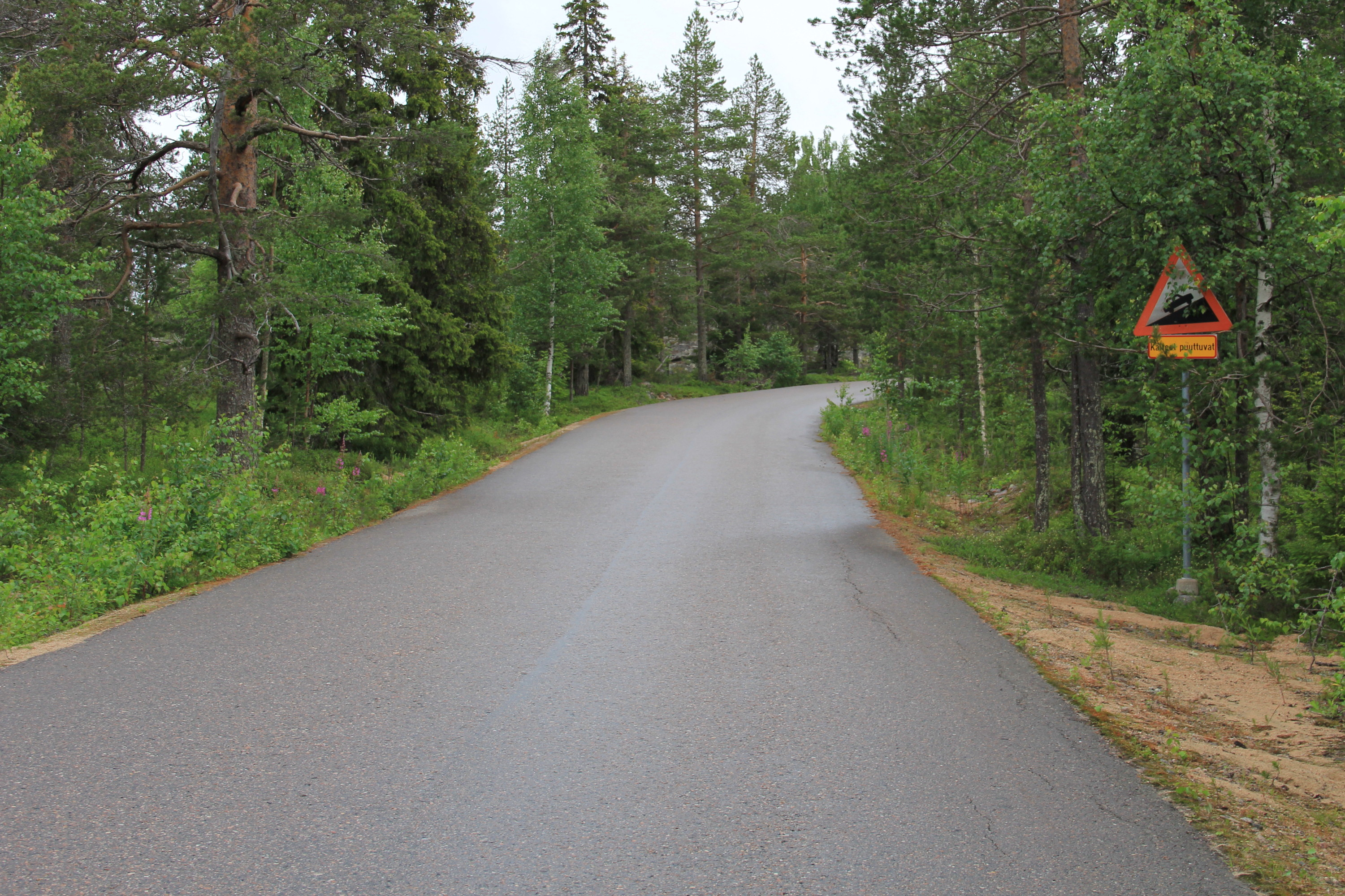 National road 9322, Finland, Aavasaksa, Ylitornio, Finland.